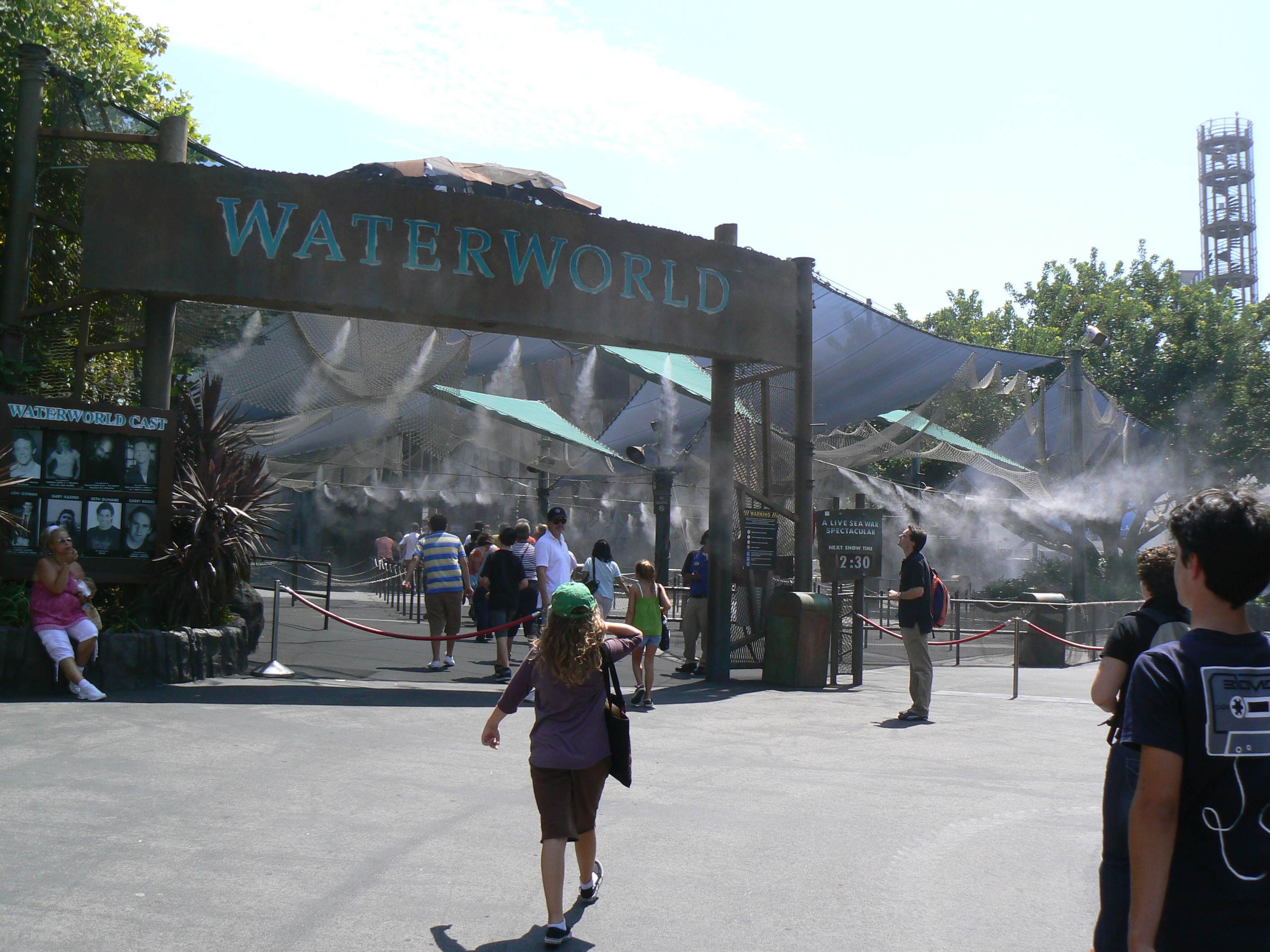 Waterworld's attraction entrance at Universal Studios Hollywood